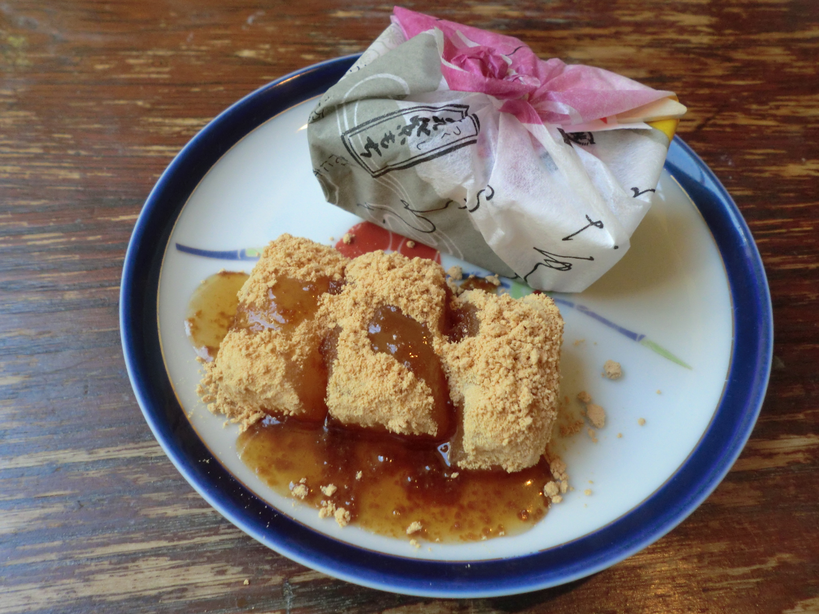 "Chikushi-mochi"(Mochi of Chikushi province), local sweet famous in Fukuoka prefecture,Japan.